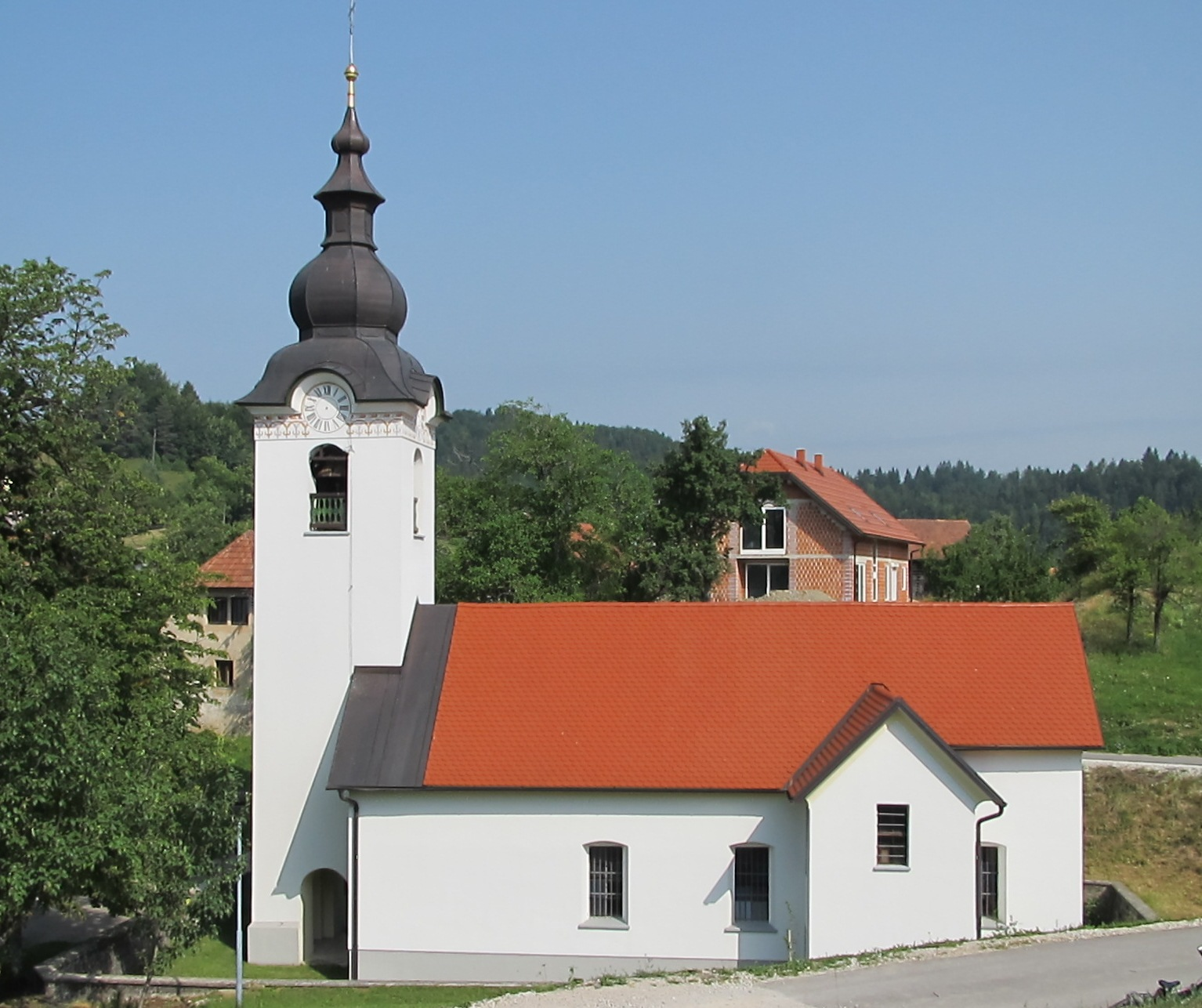 Church of Saint Anne in Butajnova, Municipality of Dobrova–Polhov Gradec, Slovenia.